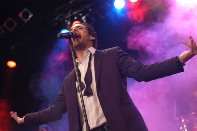 Manuel Ortega Konzert im Metropol Wien 2007 (Angekommen-Tour)